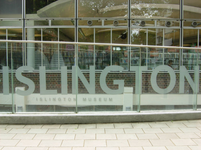 Islington Museum and Finsbury Library The library is upstairs and the museum - which first opened in May 2008 - is below. for more details.